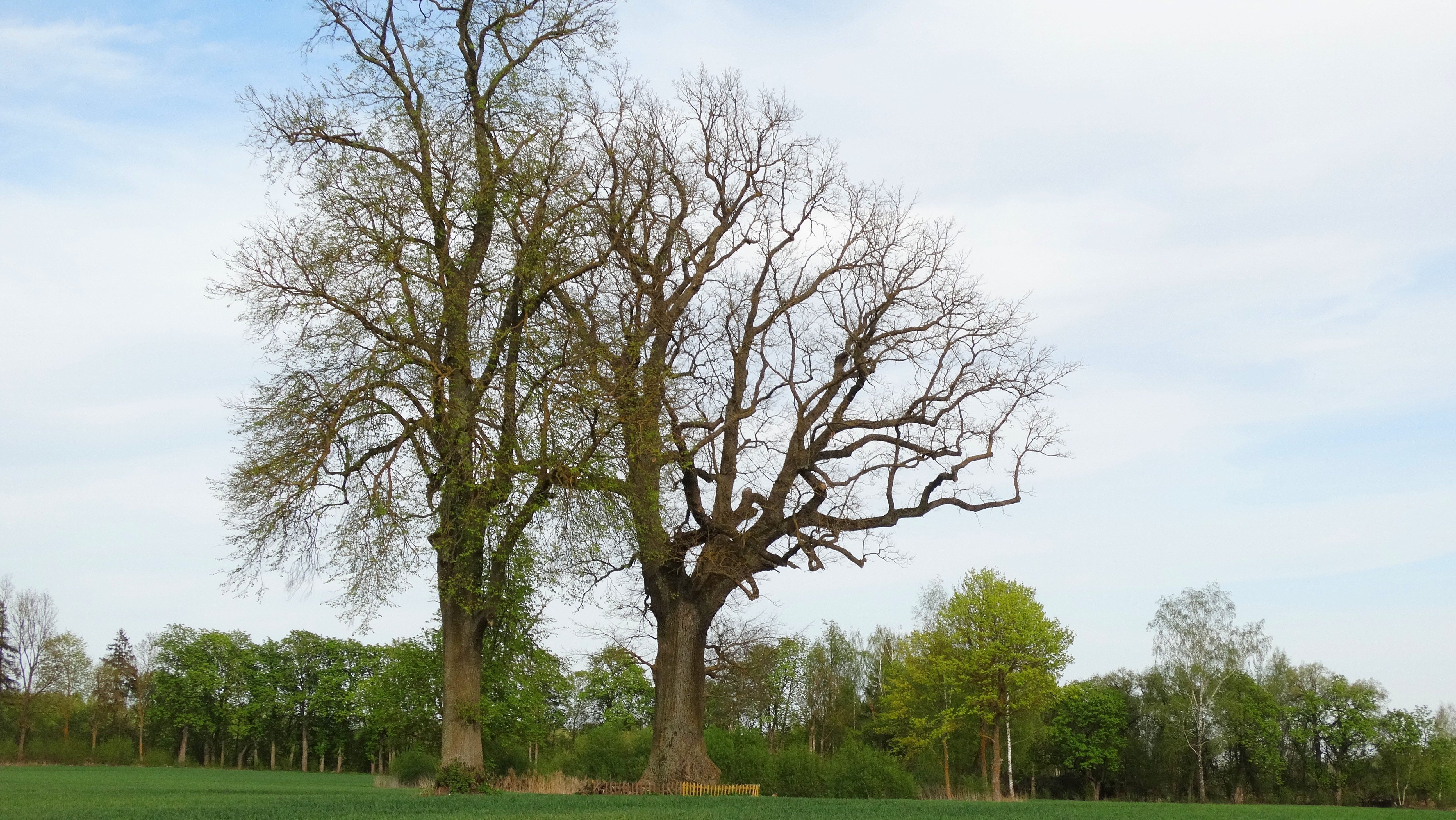 Žvirbliniai, oak, Pakruojis District, Lithuania